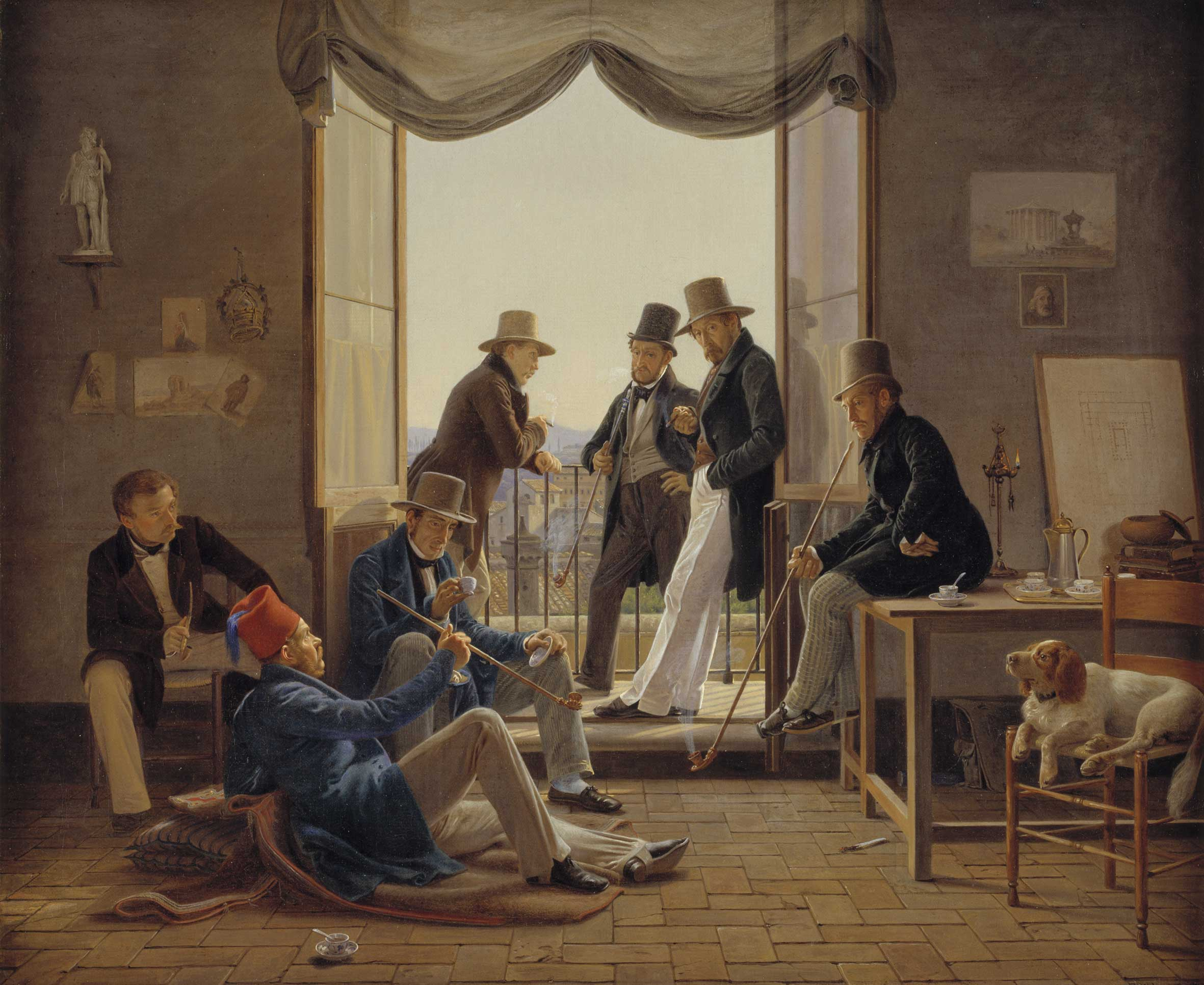 A group of Danish artists in Rome. Lying on the floor is the architect Bindesbøll. From left to right: Constantin Hansen, Rørbye, Marstrand, Küchler, Blunck and Jørgen Sonne.